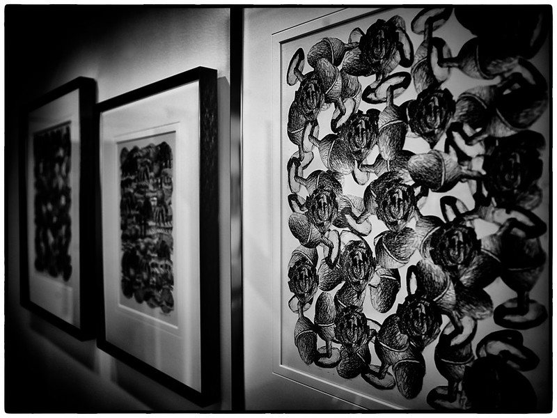 Bildcollage i svartvitt av Hans Björn